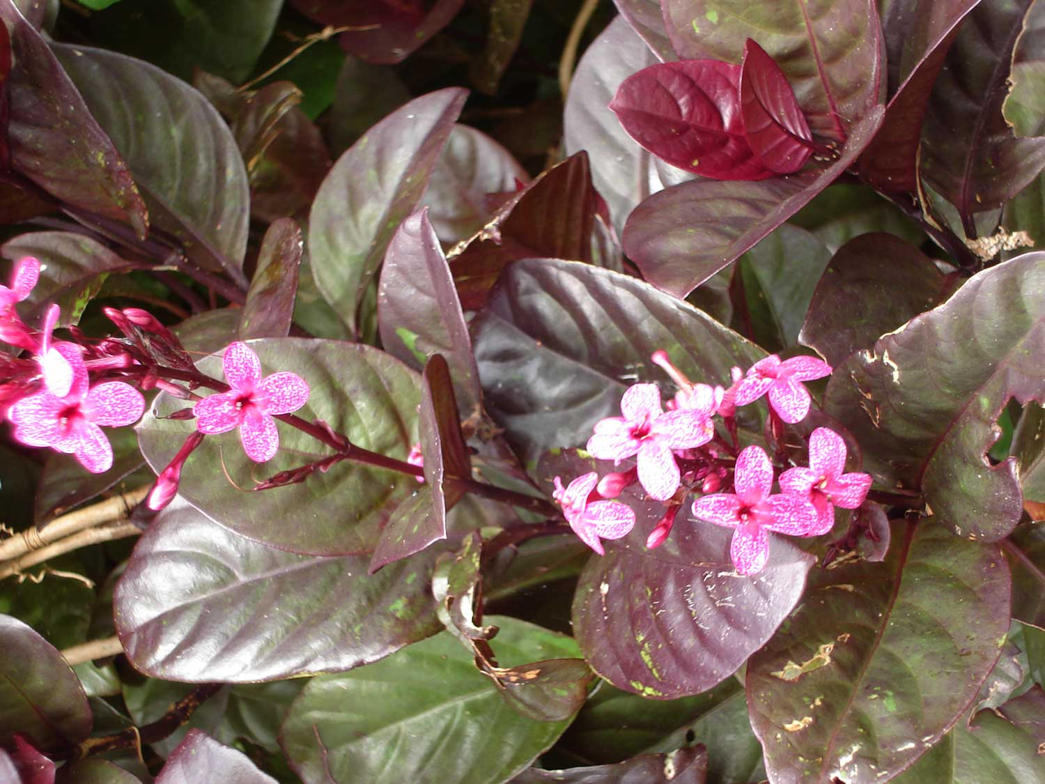 Pseuderanthemum carruthersii atropurpureum; along a garden fence in Tonga